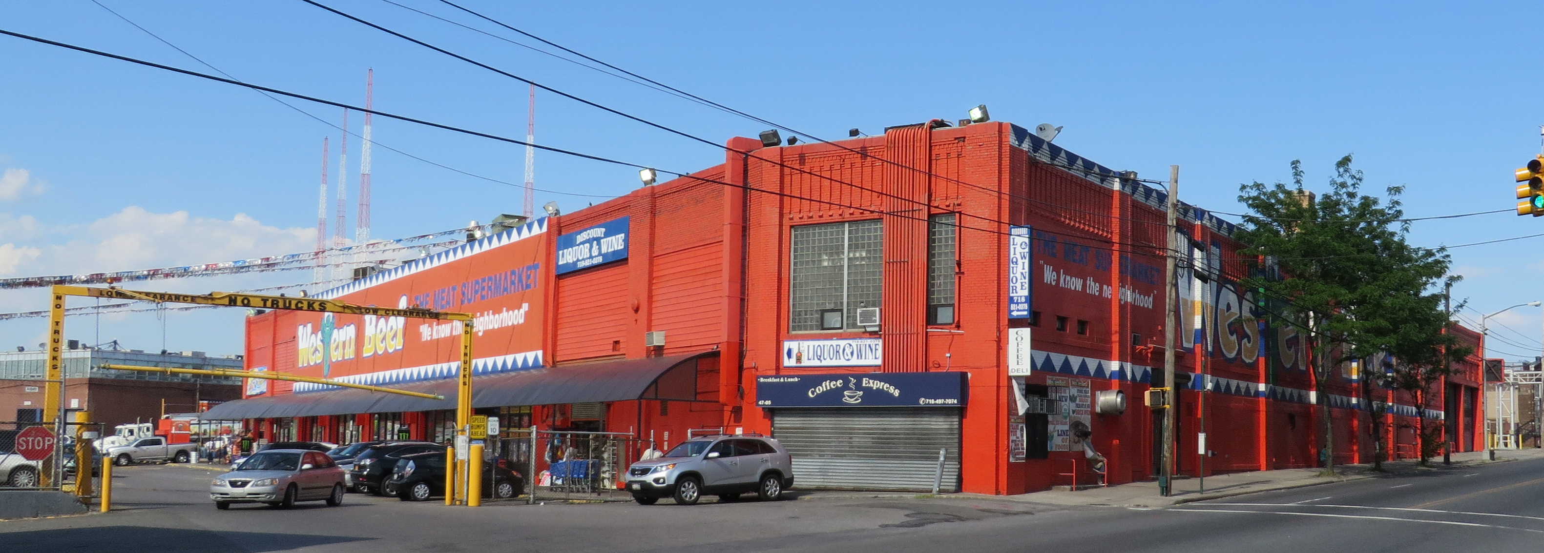 Western Beef, 47-05 Metropolitan Avenue, Ridgewood, Queens, New York.